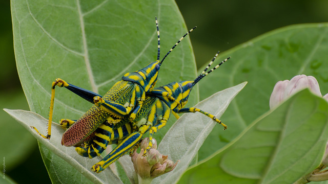 Aak grasshoppers mating on a calotropis plant, Hyderabad, India.